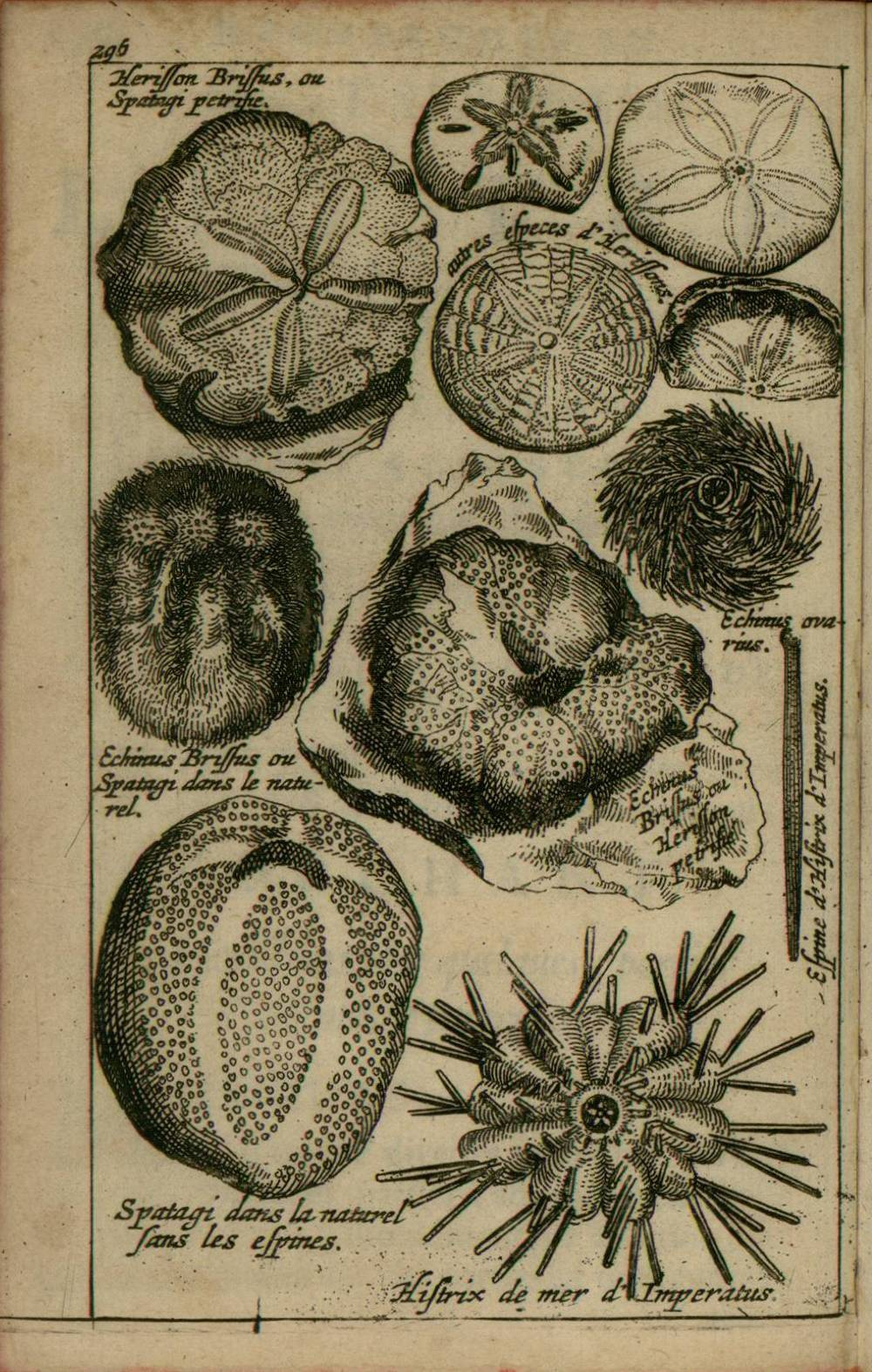 Paolo Boccone (1674), Recherches et Observations Naturelles, touchant le Corail, etc. page 296, Herisson brissus, Echinus ovarius, Echinus brissus, Histrix de mer